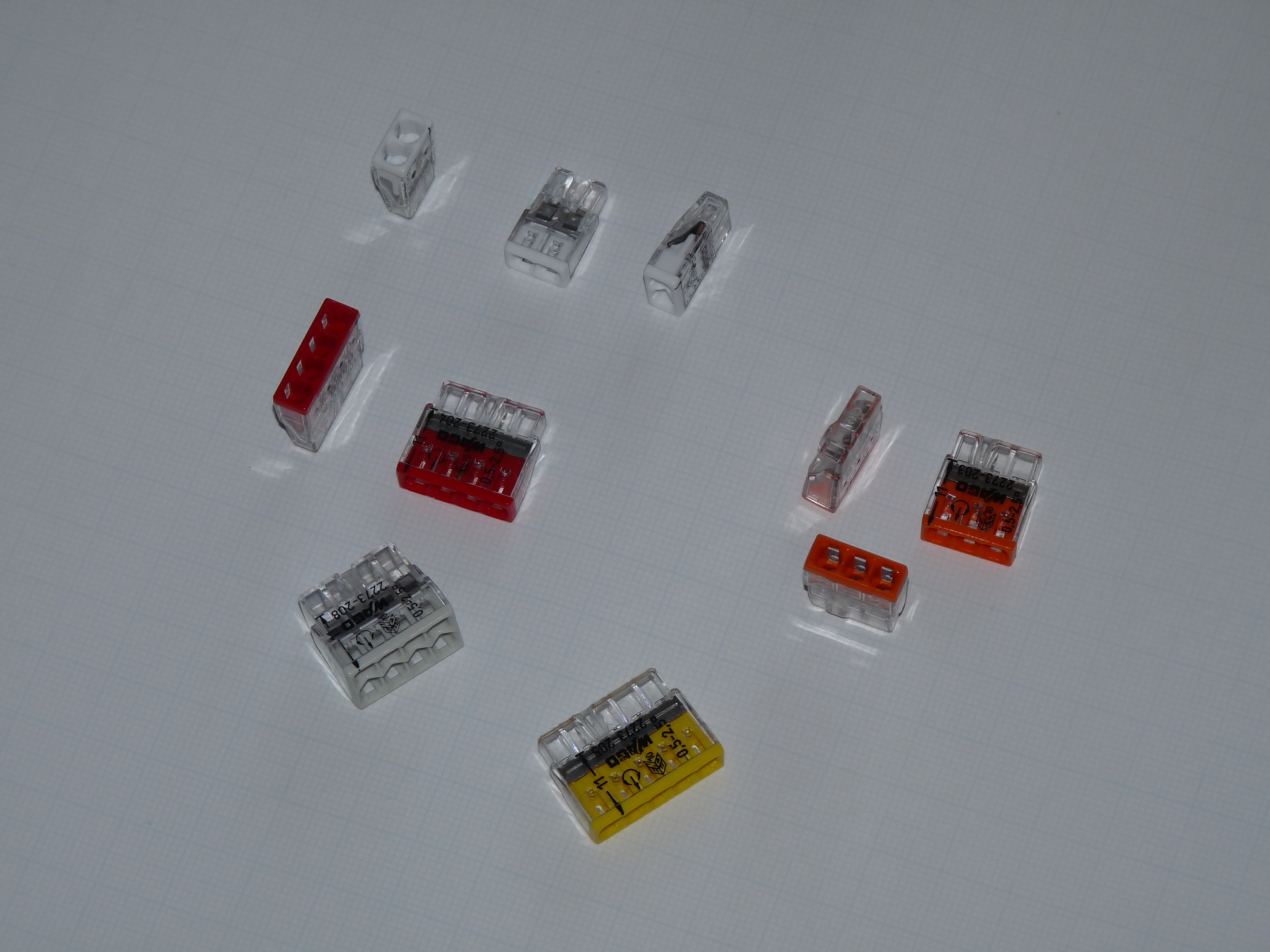 WAGO terminals